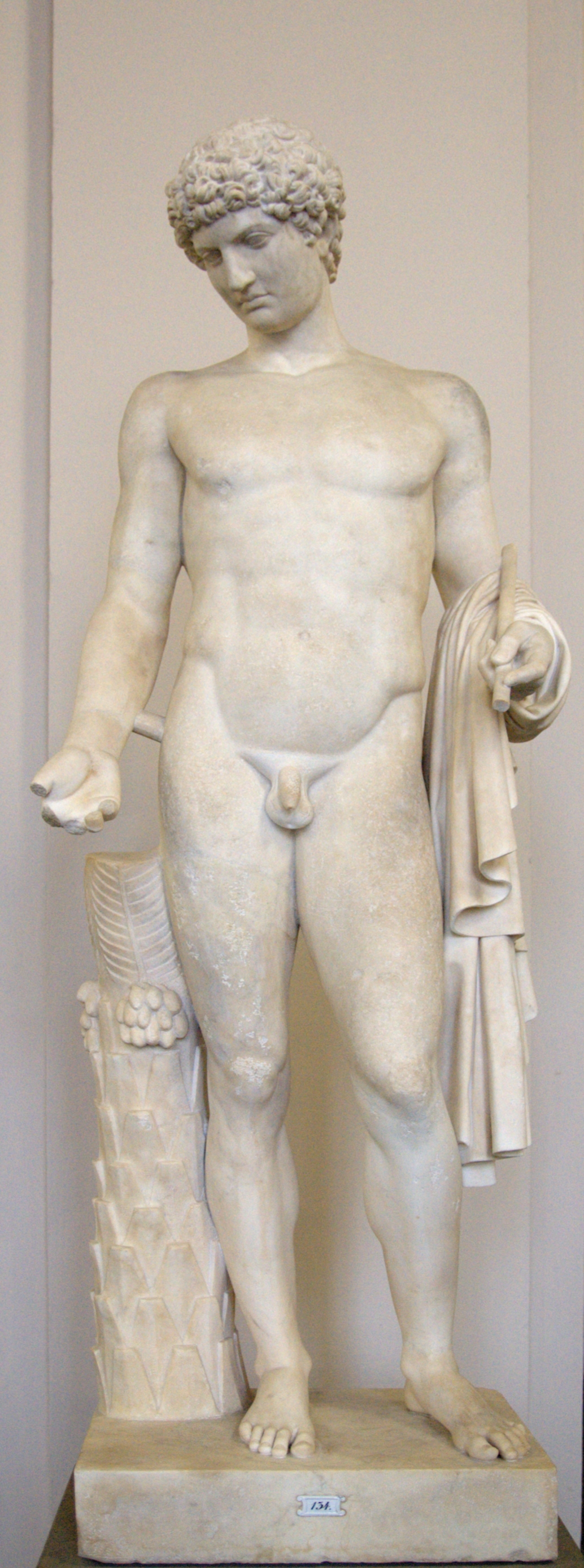 Torso of Omphalos Apollo (Roman copy after a Greek bronze original), modern restoration with harms, legs and head inspired by Capitoline Antinous.